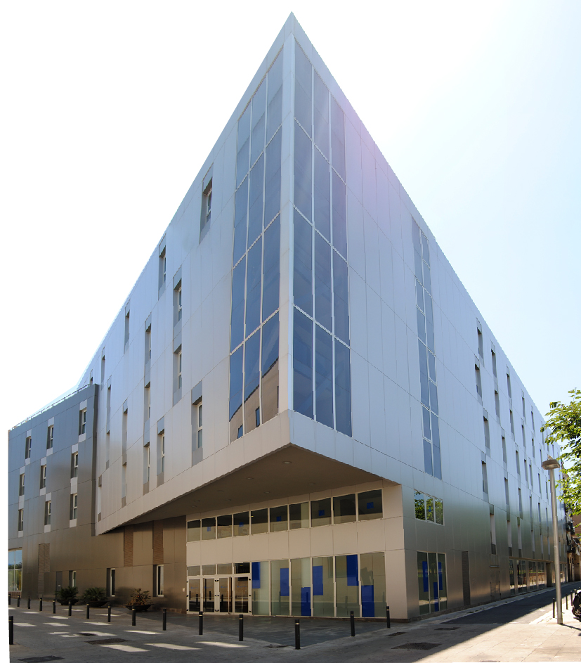 New bulding Conservatori del Liceu